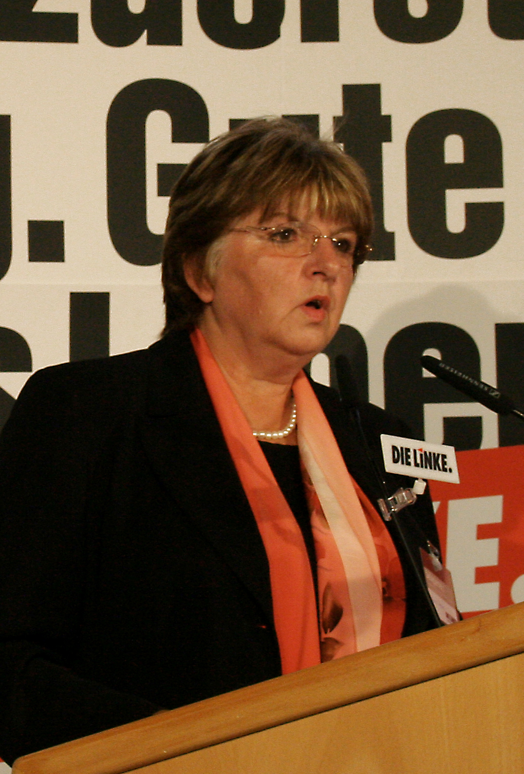 Germany politician of Saxony, Die Linke